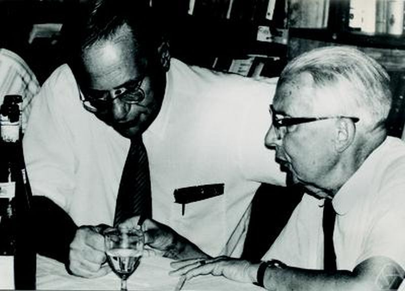 Einar Hille (right) 1971